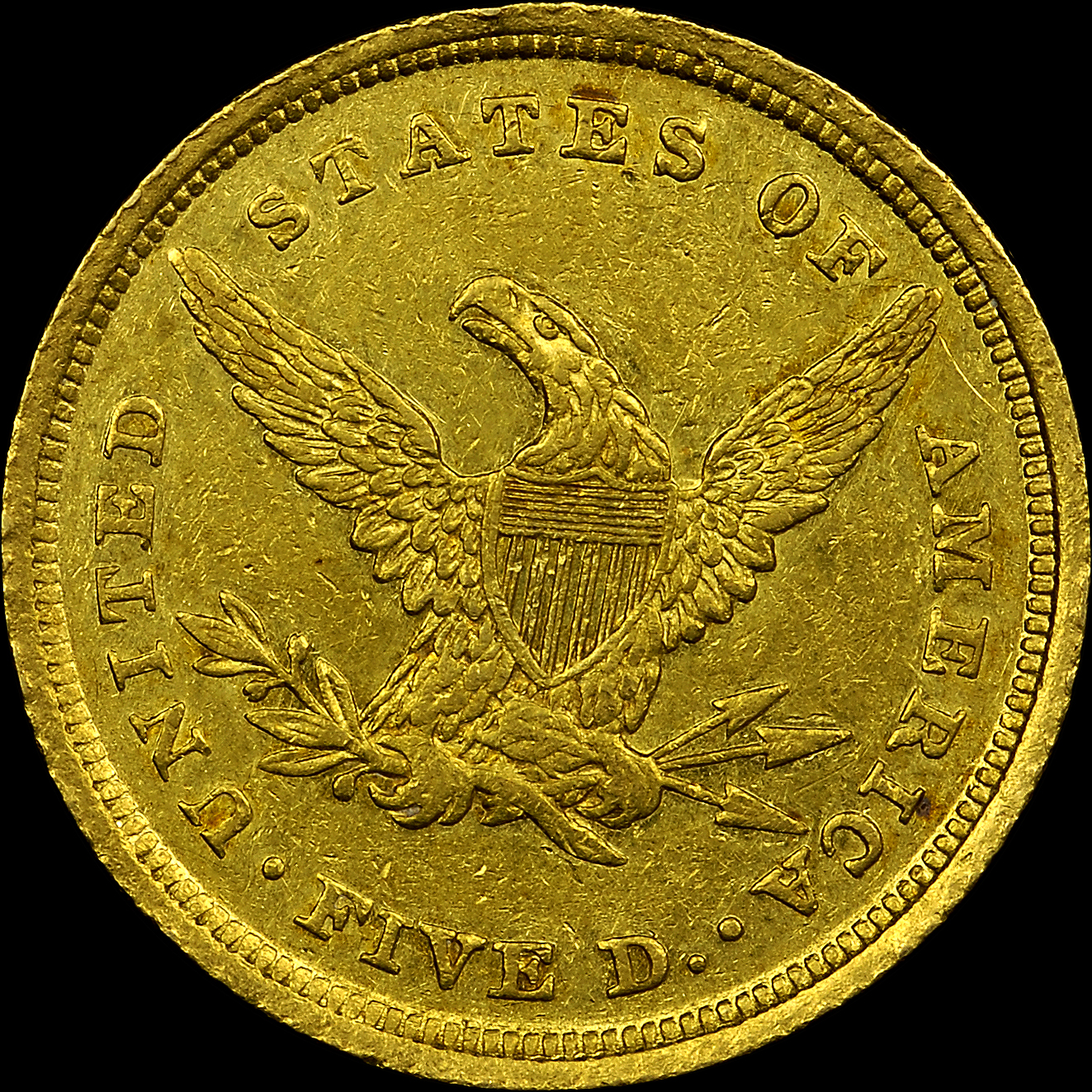 1839-C $5 -- Improperly Cleaned -- NGC Details. AU. Variety 1. Ex: "Col." E.H.R. Green. Lightly cleaned with numerous light abrasions but no overt hairlines or evidence of harsh cleaning, this Charlotte Mint example is a necessity for type and gold specialists because of its one-year-only design status and the popular obverse mintmark. A year later, the portrait was subtly modified and the mintmark moved to the reverse, where it resides for the rest of the series. Despite the cleaning, mint luster remains around the devices and the in-hand impression conveys nice eye appeal. Ex: "Colonel" E.H.R. Green; Green Estate; Partnership of Eric P. Newman / B.G. Johnson d.b.a. St. Louis Stamp & Coin Co.; Eric P. Newman @ $30.00; Eric P. Newman Numismatic Education Society. Realized $4406.25. Description courtesy of Heritage Auctions.